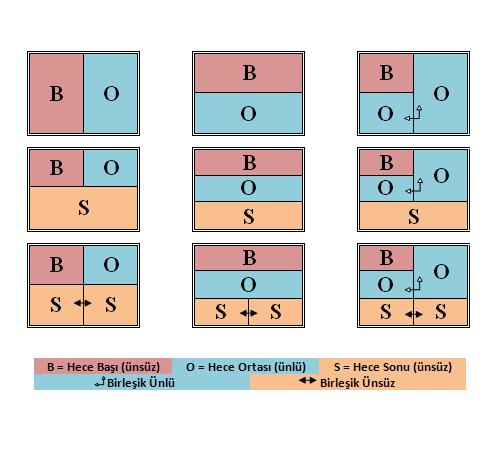 Table for Turkish speaking people that shows Korean alphabet, Hangul's syllable formation layout.